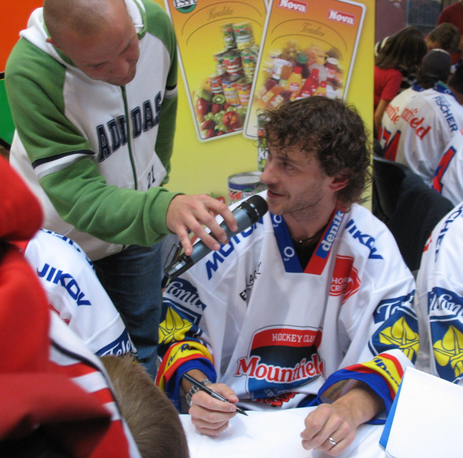 czech ice hockey player Viktor Hübl by autography